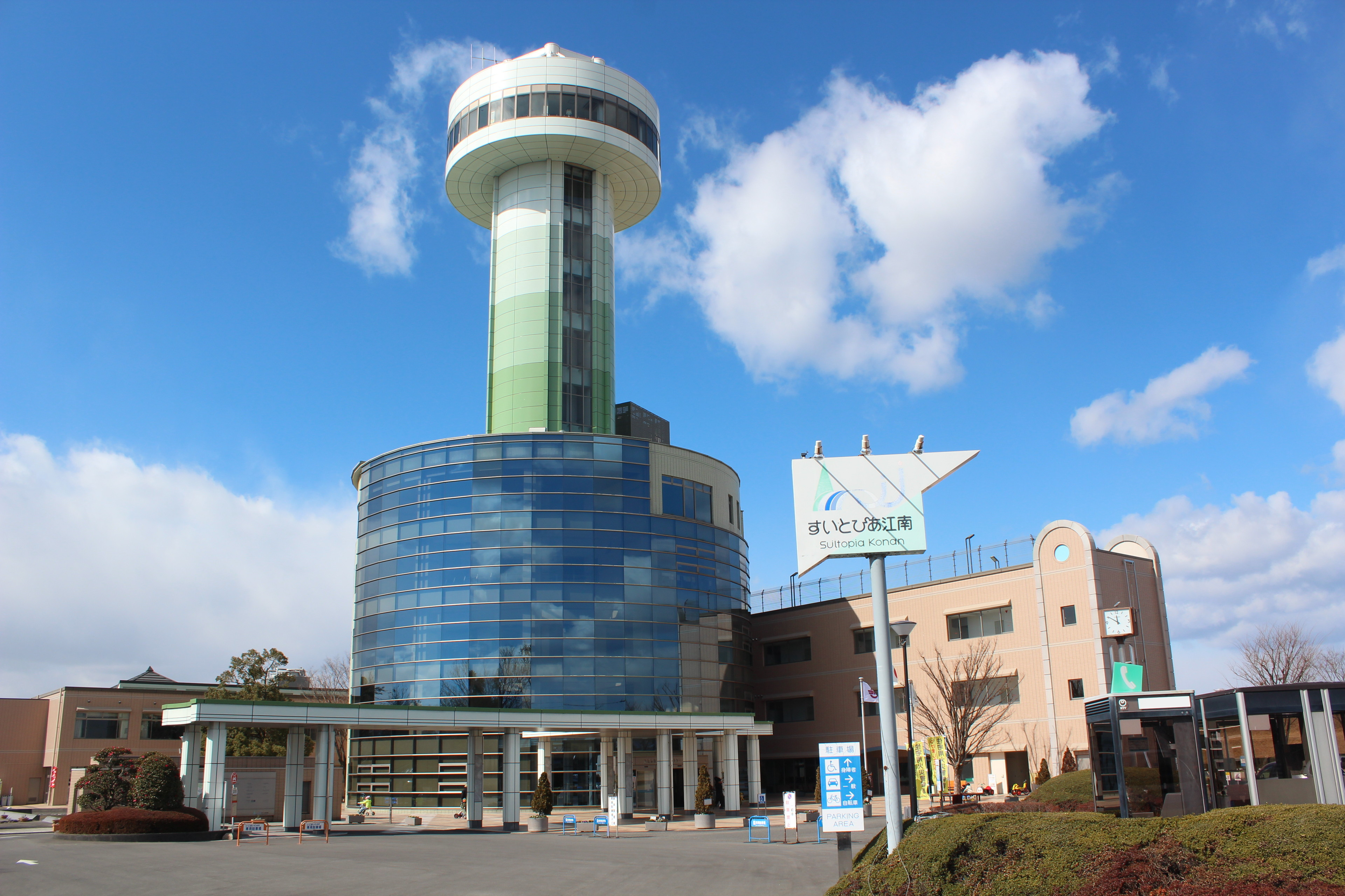 Suitopia Konan, in Konan, Aichi prefecture, Japan.